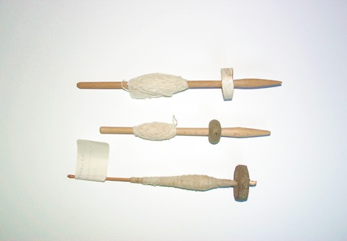 spin squirming with different winding techniques.